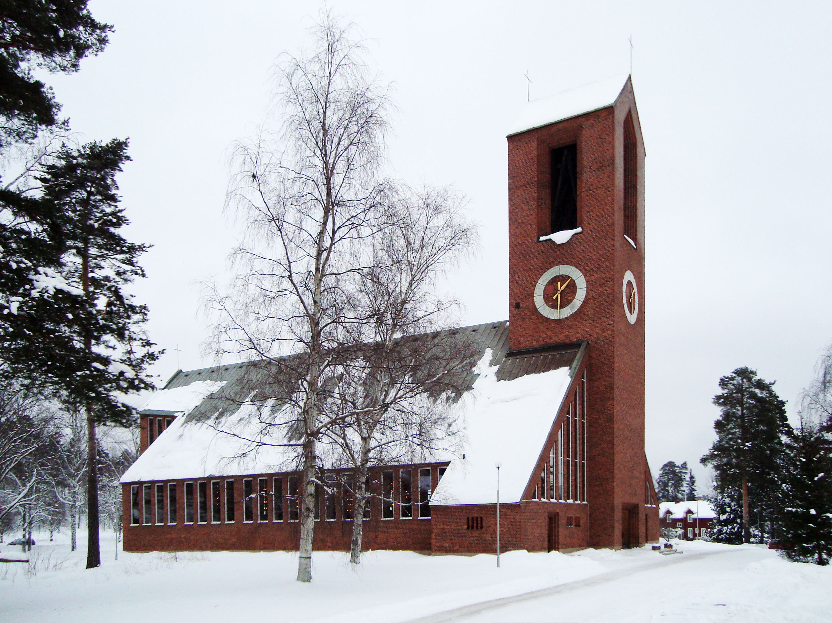 Hofors's church, Sweden